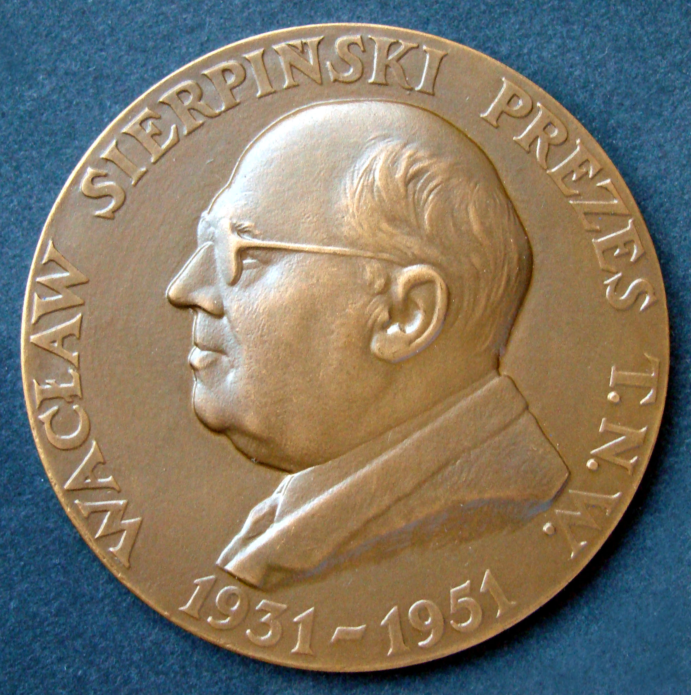 Wacław Sierpiński, Polish mathematician